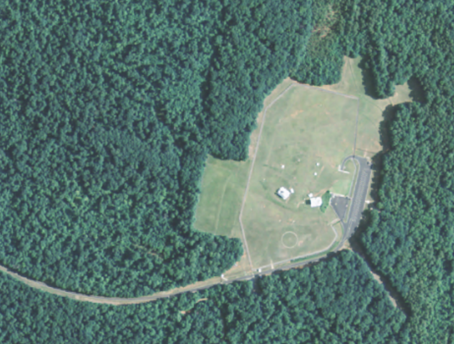 A USGS satellite view of the "Big Hole" Project Office